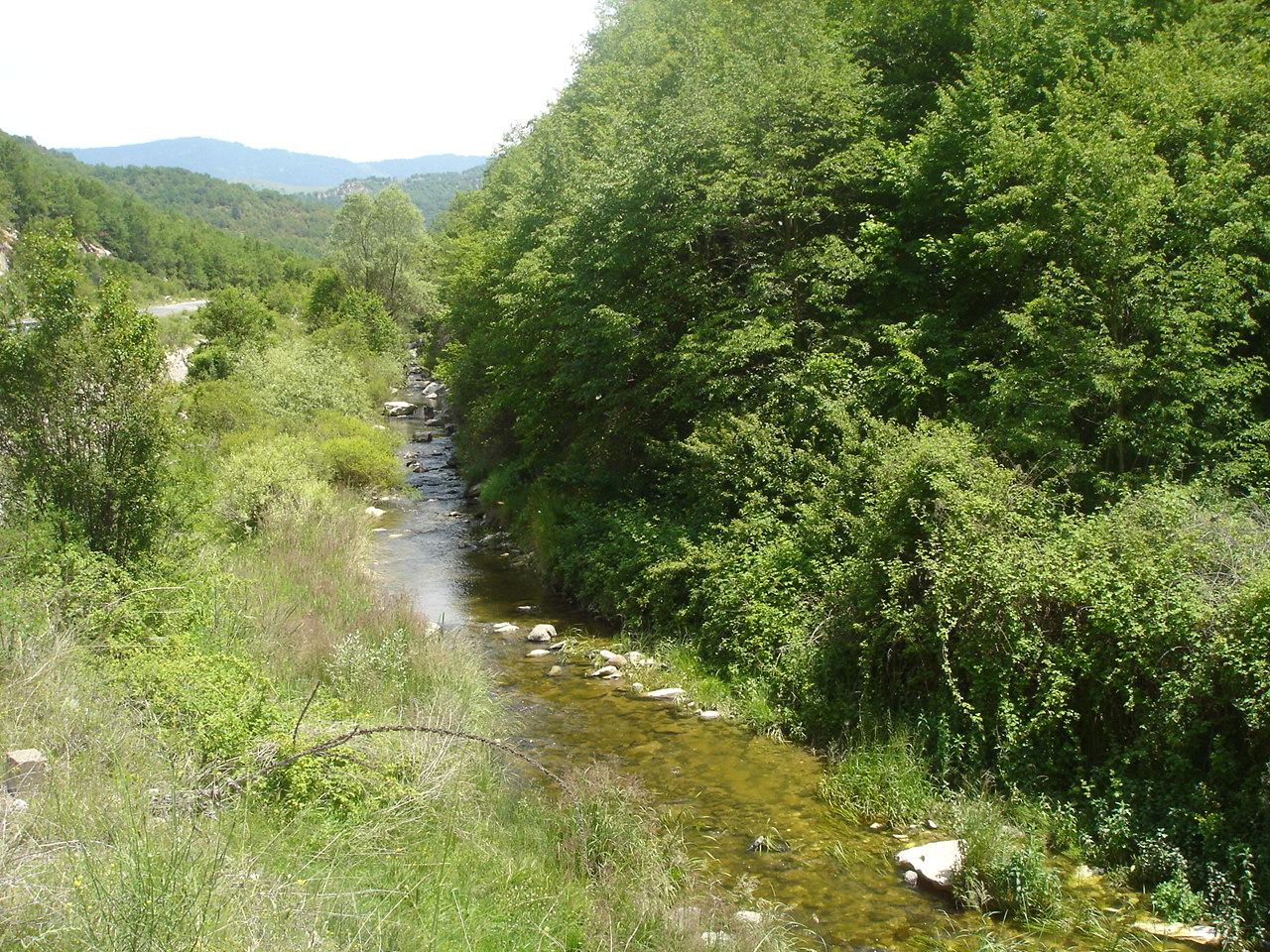 River Buturica in Mariovo region, Macedonia